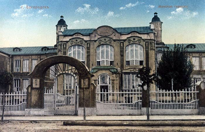 Bogorodsk (present-day Noginsk) in 1911. Postcard: Girls' school.